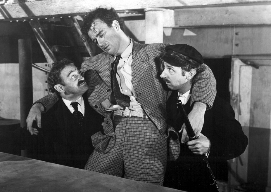 Photo from the 1940 film The Long Voyage Home.